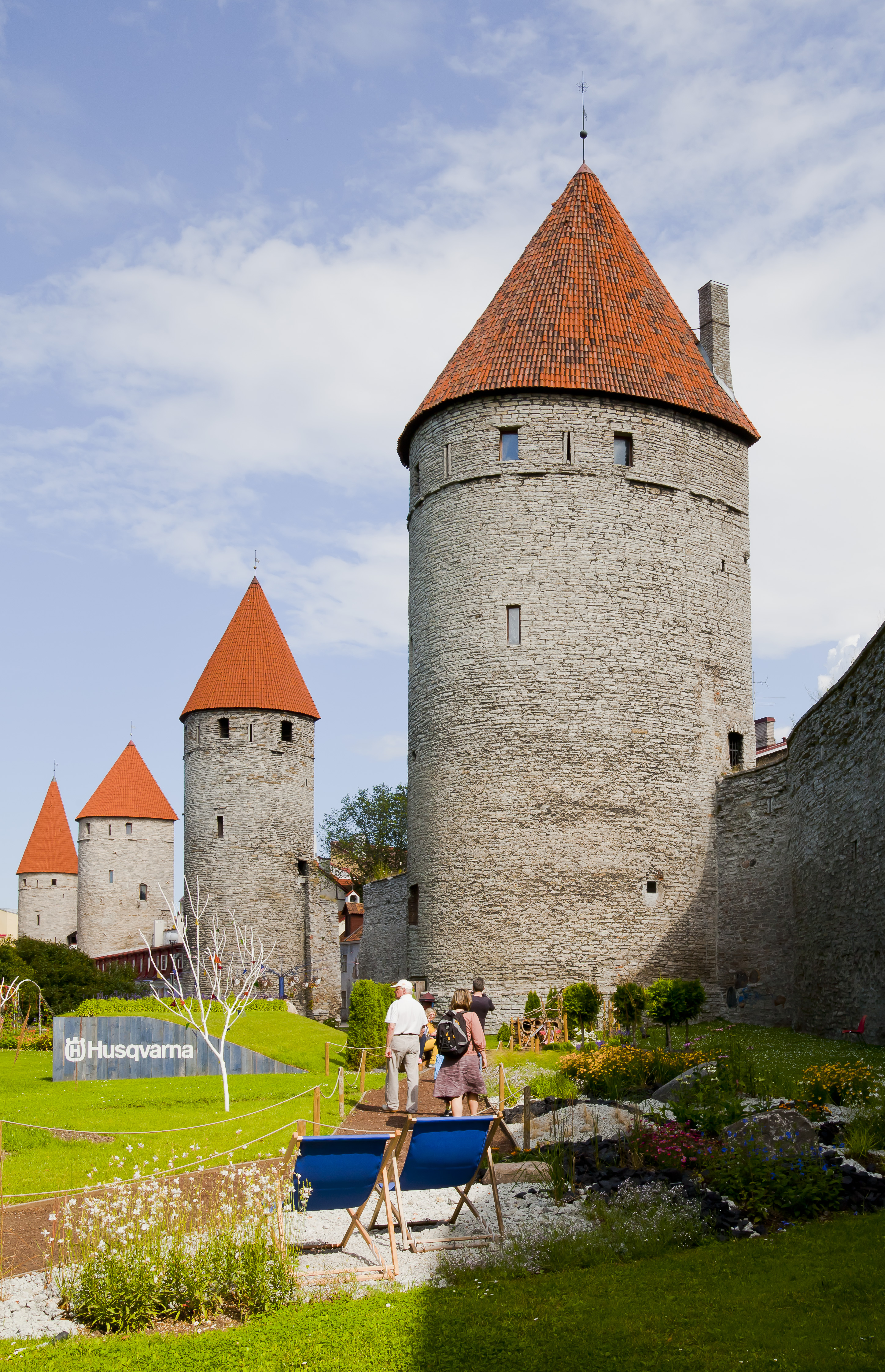 Walls of the old city of Tallinn, Estonia